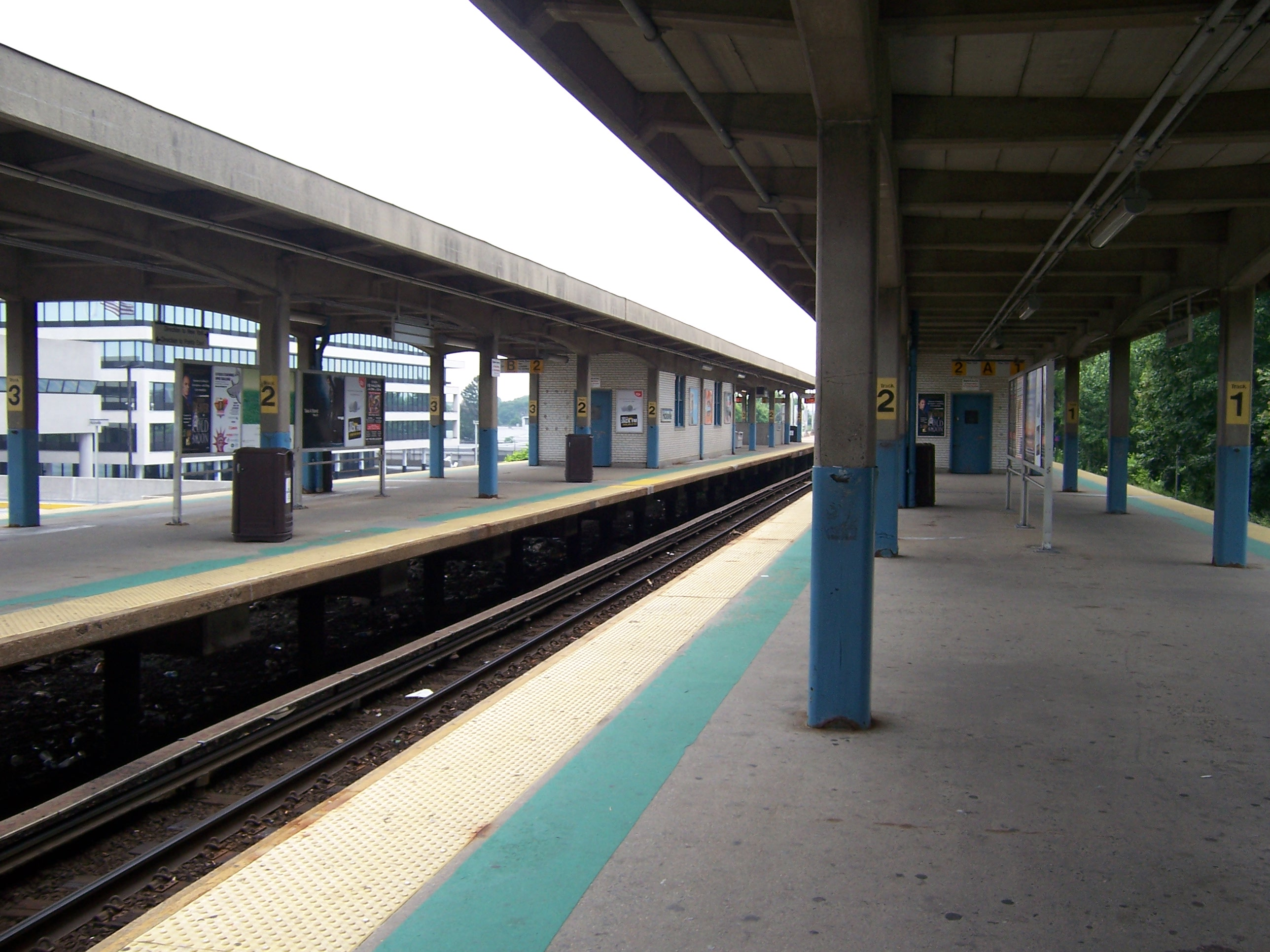 Taken by me on June 19, 2006